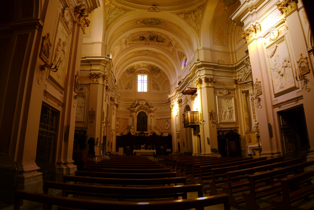 The interior of the church of Santa Maria del Popolo in Bomba, in the province of Chieti, Abruzzo